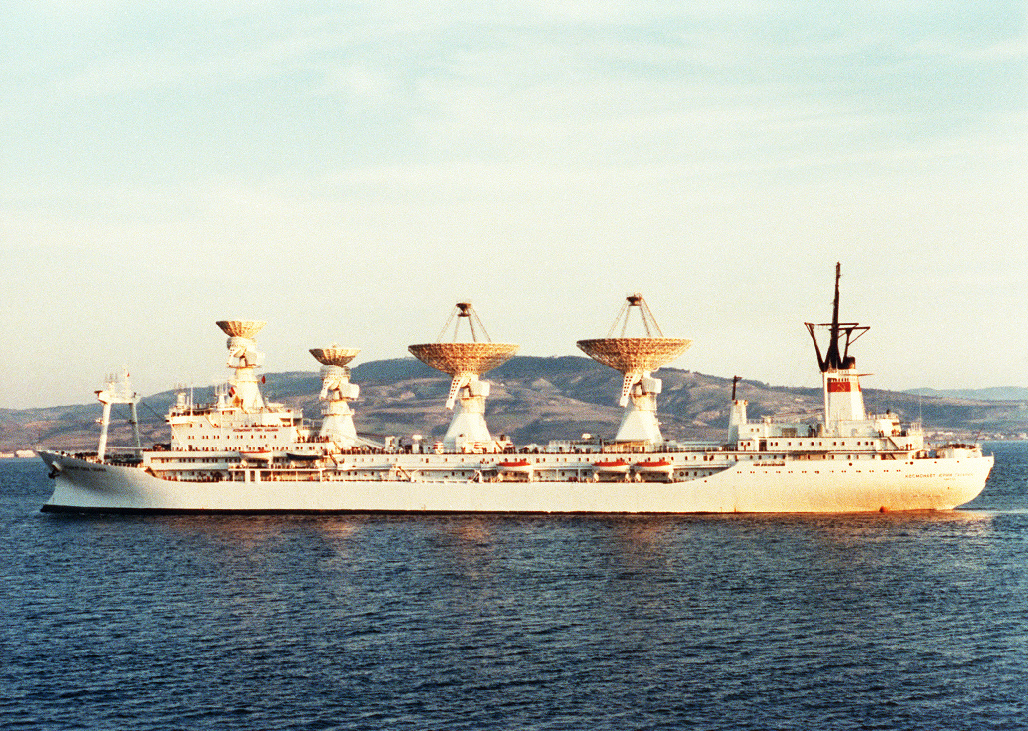 A port beam view of the Soviet space control-monitoring ship KOSMONAVT YURIY GAGARIN underway.